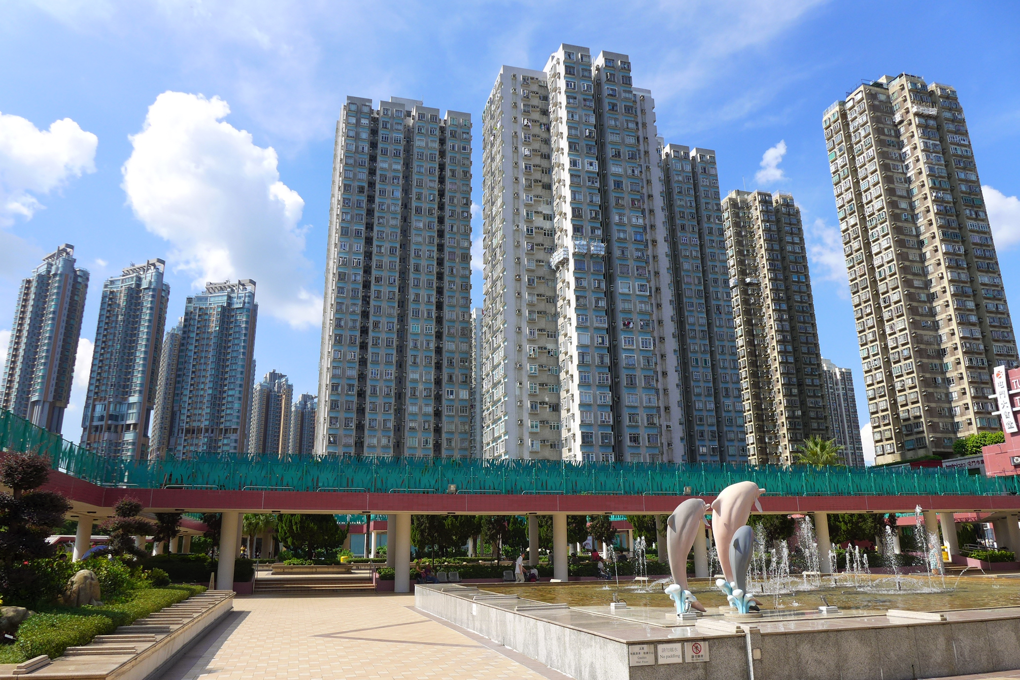 Tuen Mun Town Centre